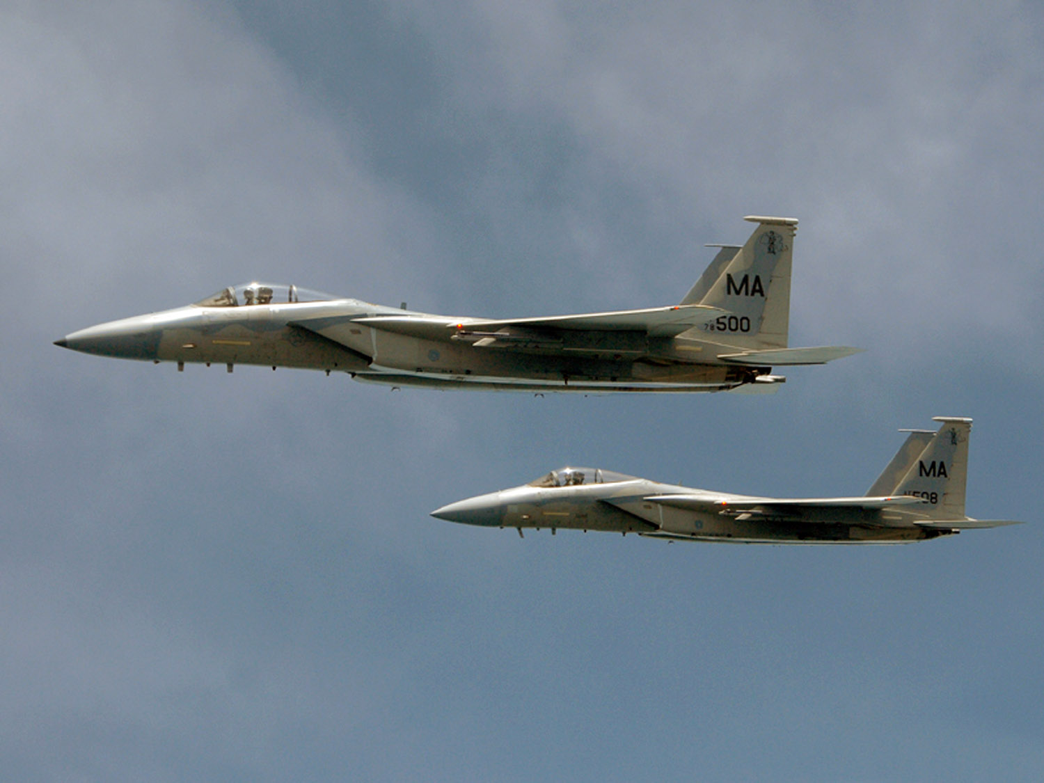 Teo U.S. Air Force McDonnell Douglas F-15C-22-MC Eagle fighters (s/n 78-0500, 78-0508) from the Massachusetts Air National Guard's 102nd Fighter Wing participated in a special event held 6 June 2007 to promote "Air Force Week New England" which took place in August 2007.